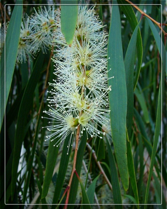 Melaleuca leucadendra - Weeping Paperbark (as I indentify it) Evergreen tree with weeping habit and whitish papery bark. and with long creamy-white flowers in bottlebrush spikes. It grows near and looks the same as this tree However they flowered at different time. By my observation often you cannot relay on flowering period to ID Australian plants.